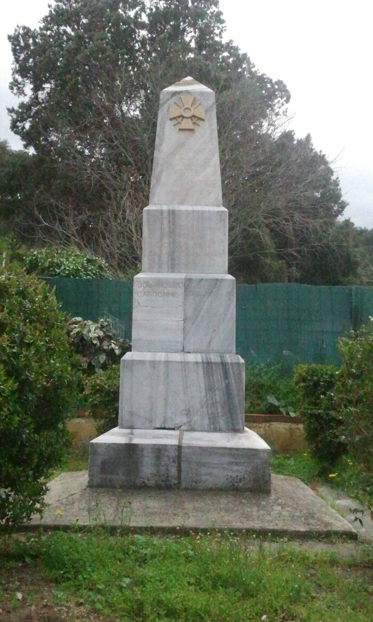 War memorial in Les Cluses